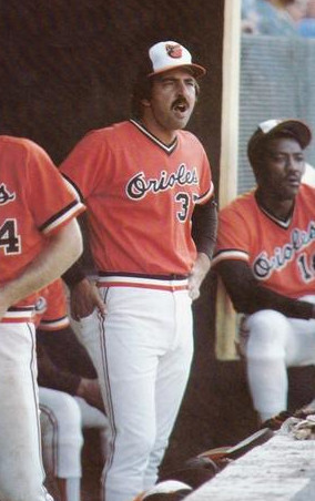 Professional baseball player Dick Drago